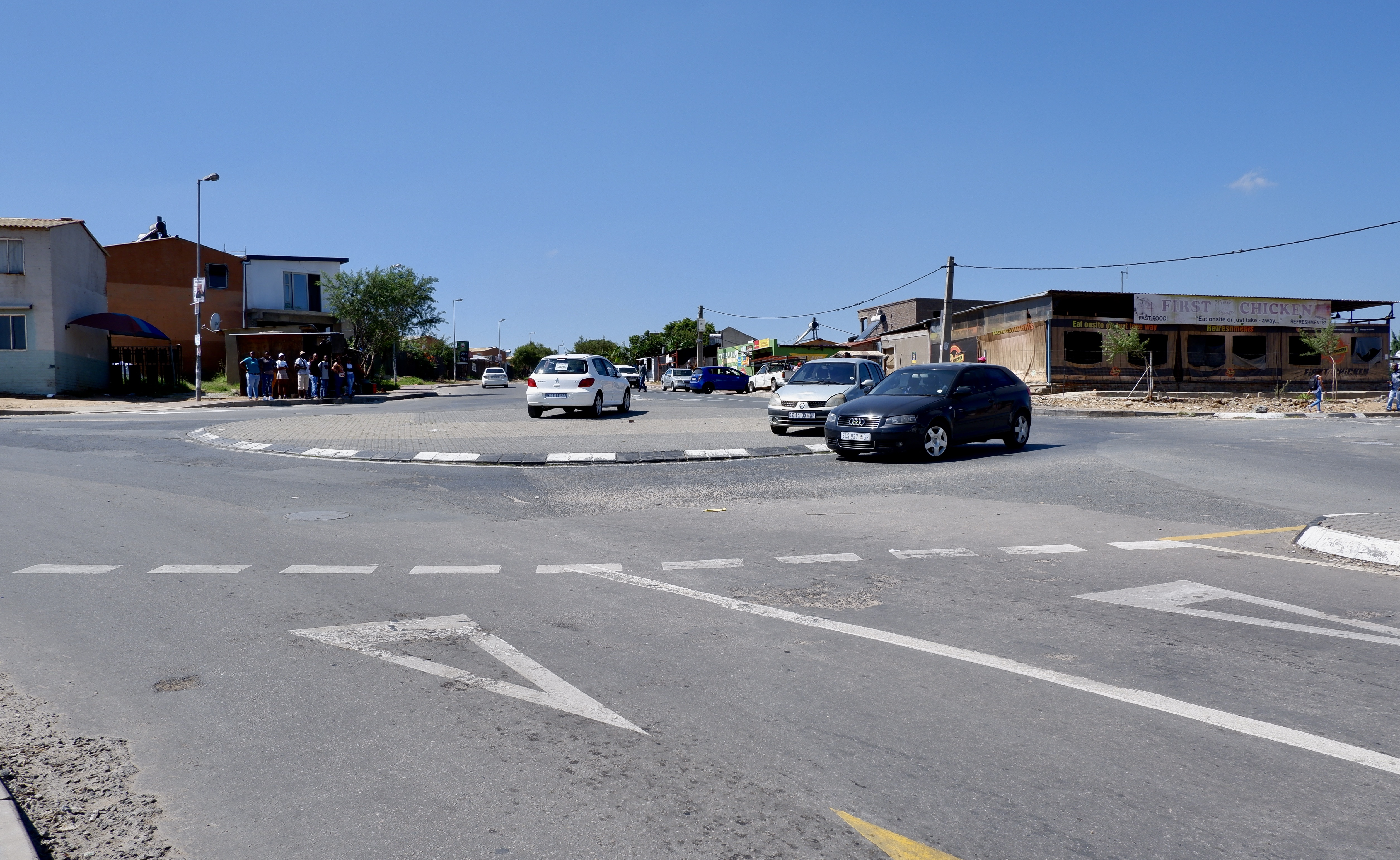 This is an image with the theme "Africa on the Move or Transport" from: South Africa